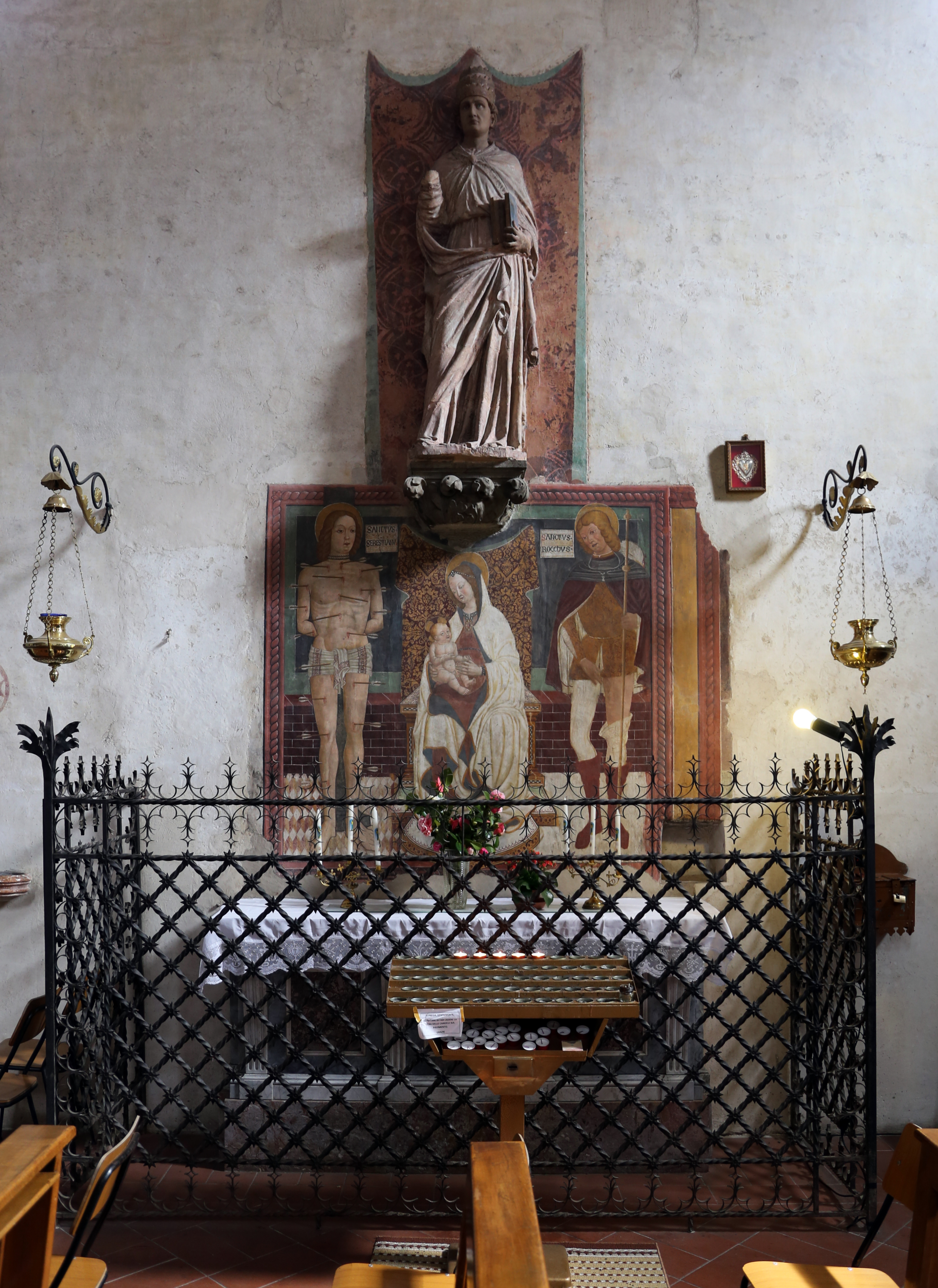 Chiesa del Santissimo Corpo di Cristo (Castiglione Olona)